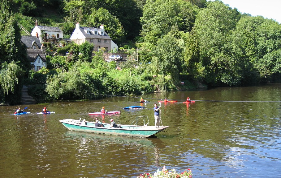 The hand-operated ferry across the River Wye at Symonds Yat. The view is from the Saracen's Head (OS ref SO561159) looking west.